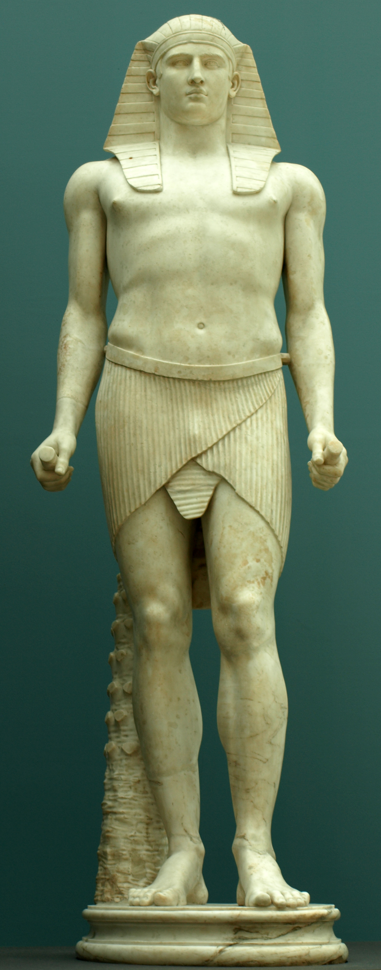 Antinous depicted as the Egyptian god Osiris, originally discovered in 1738-9 in Hadrian's Villa. From the Vatican Museum collection, Museo Gregoriano Egizio 22795, seen here while at the British Museum as part of the "Hadrian: Empire and Conflict" exhibition.